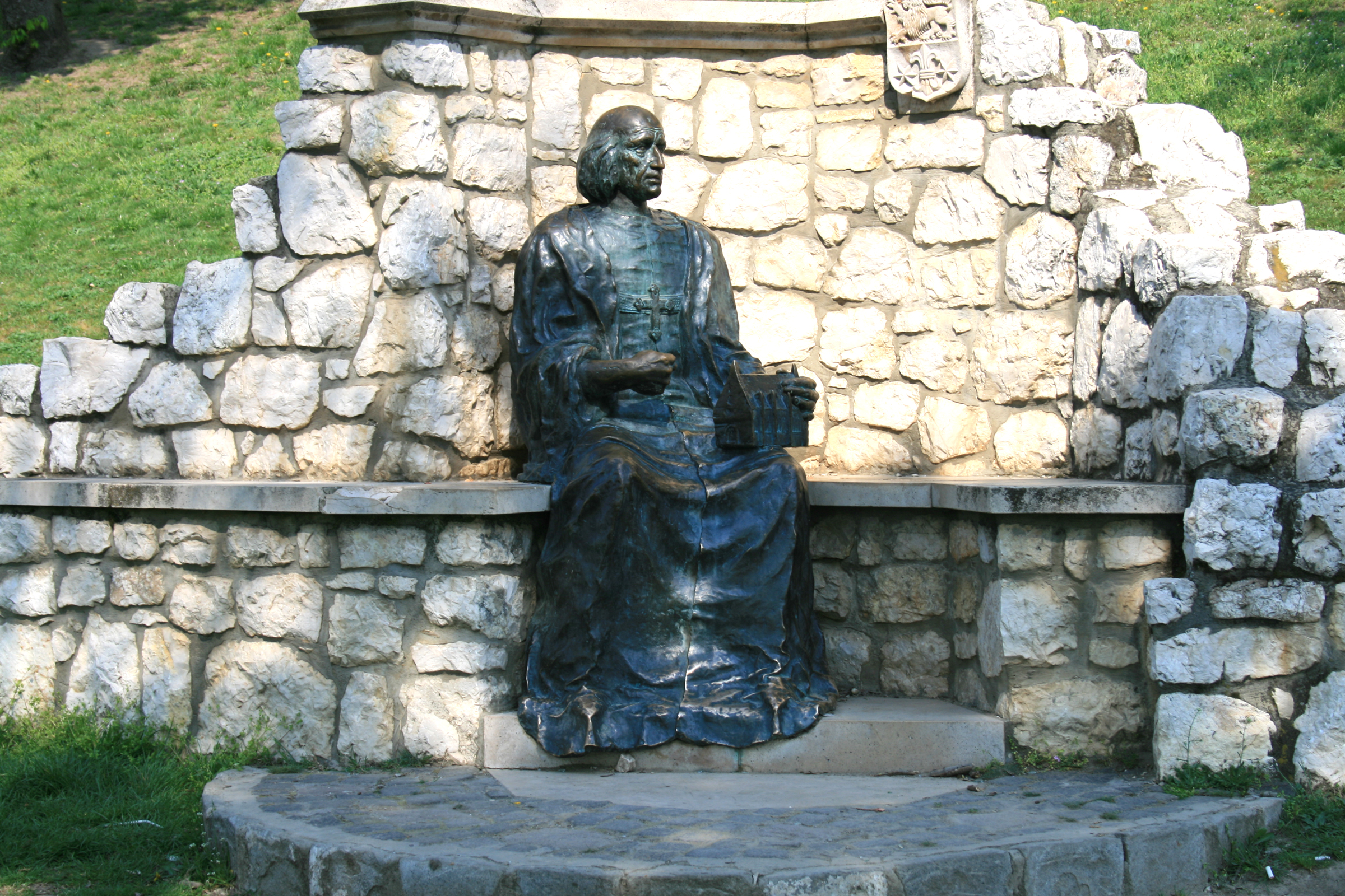 Statue of John Vitéz in park under Esztergom castle, Esztergom, Hungary